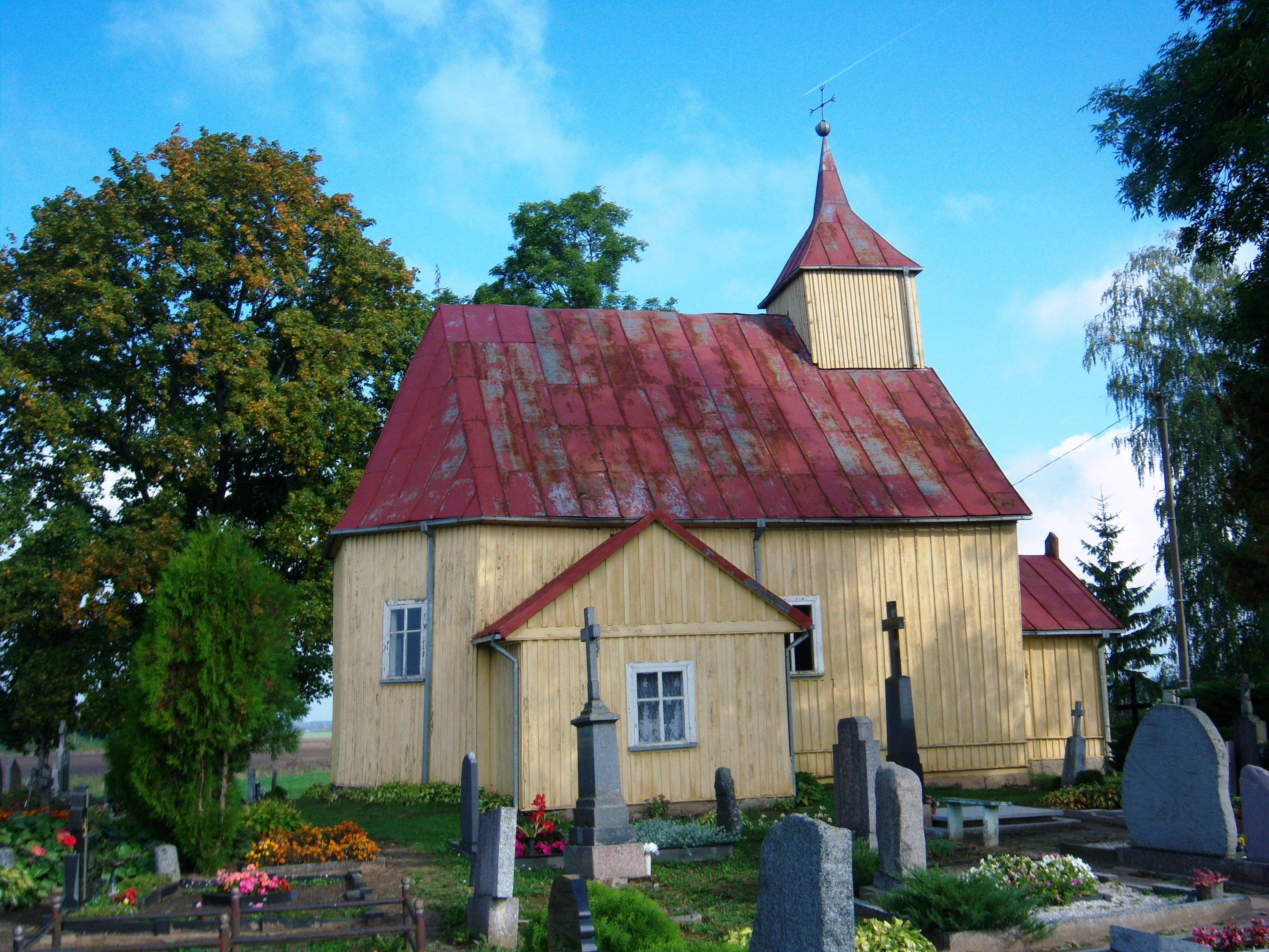 Chapel in Antupiai, Vilkaviškis District, Lithuania